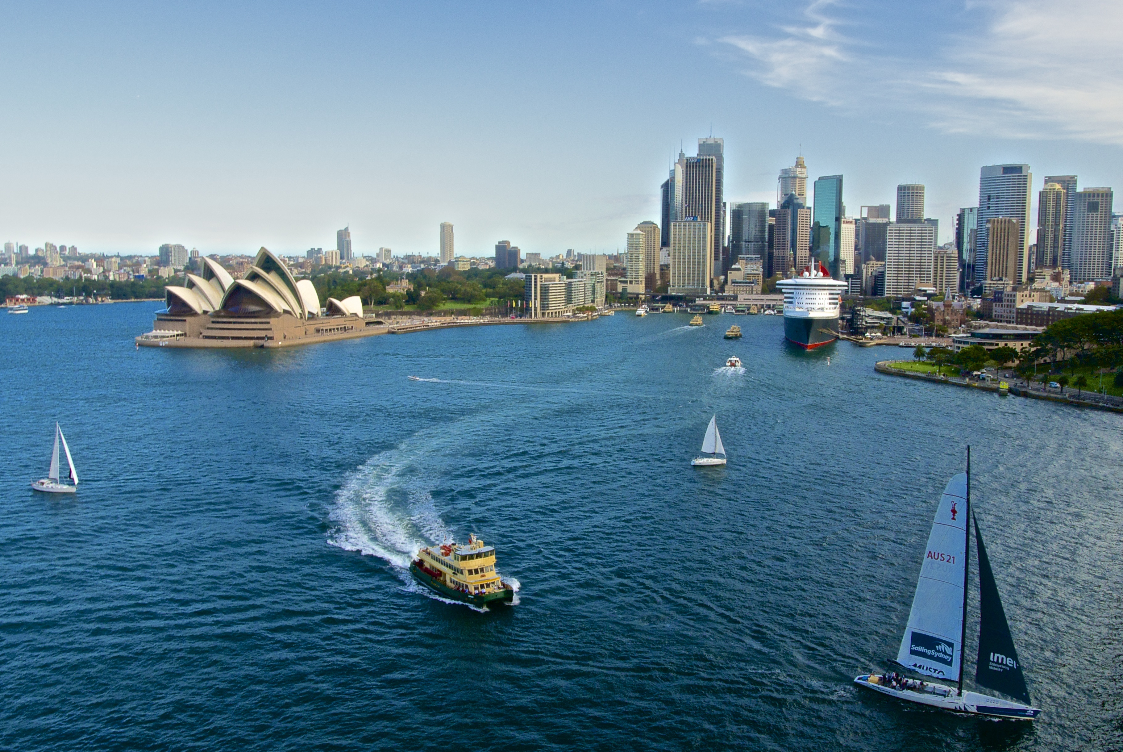 World's largest ocean liner, Queen Mary 2 docking at Sydney's Circular Quay on the 14th of March 2014.